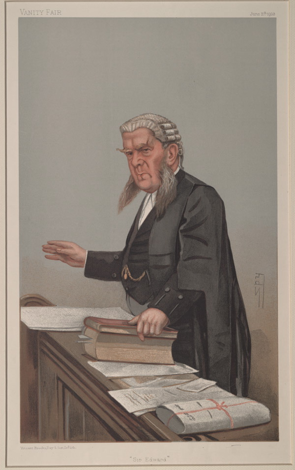 Men of the Day No. 882: Caricature of Sir Edward George Clarke. Caption read "Sir Edward".